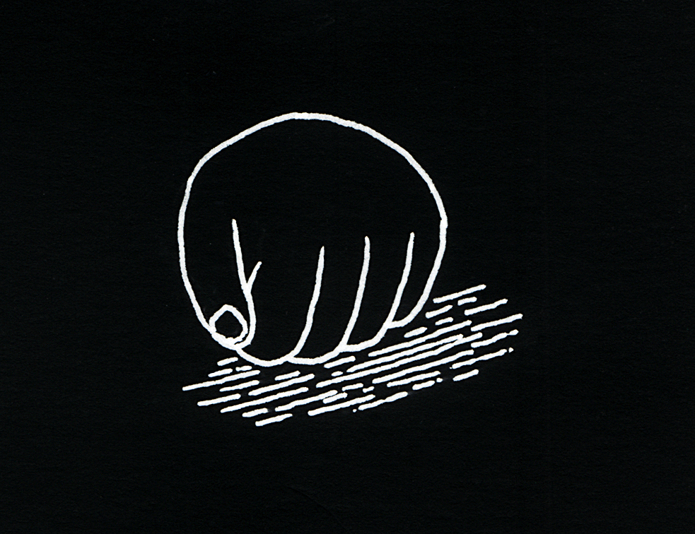 Illustration: Knock on woodNorsk bokmål: Illustrasjon: Bank i bordet